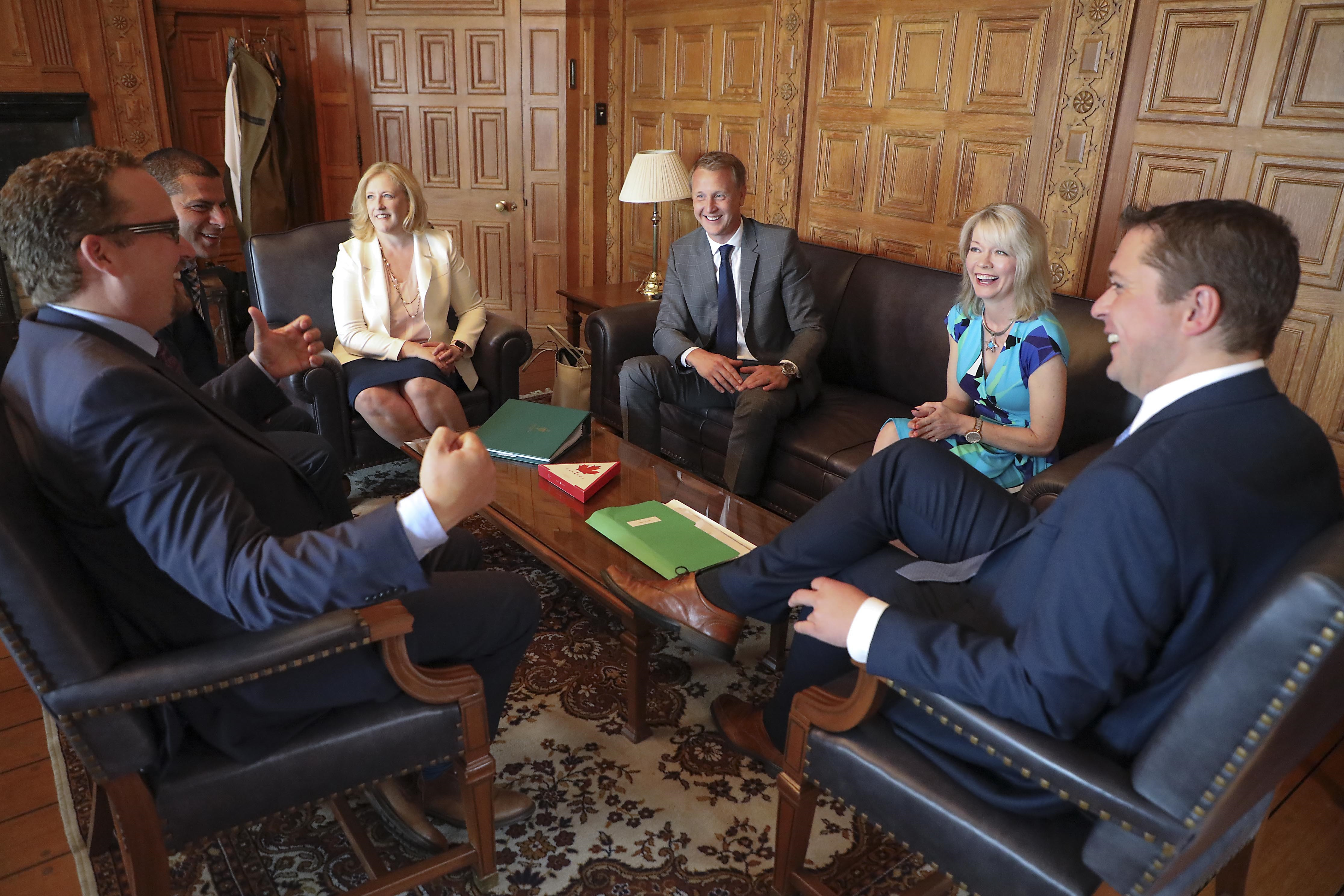 Conservative Party of Canada leader Andrew Scheer and his leadership team in 2017